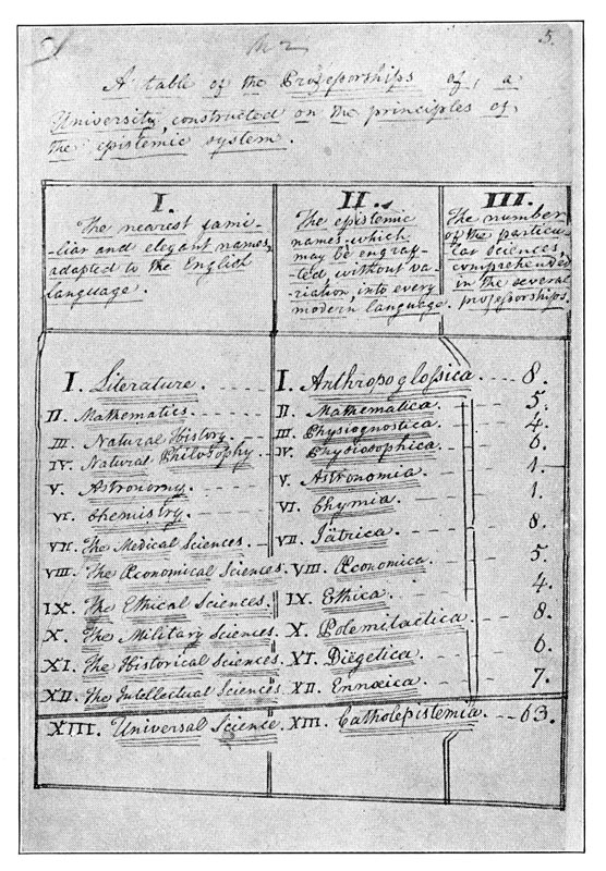 Augustus Woodward's handwritten notes on the organization of the Catholepistemiad, or University of Michigania